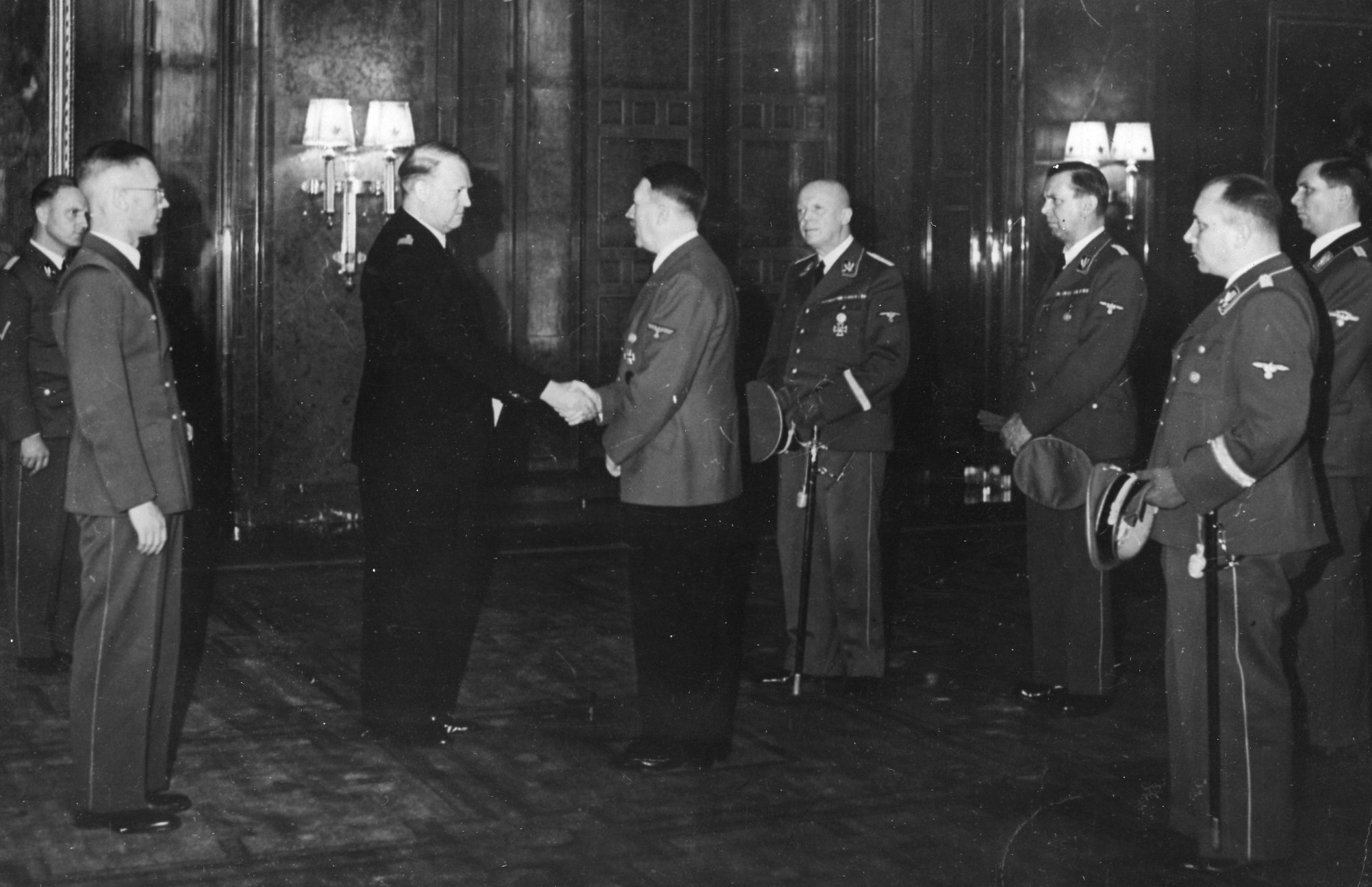 Reception when Quisling leader. Links Reichskommissar Terboven, Fri mid Minister Lammers, right Bormann, group leaders and group leaders Schaub Bormann. 02/13/1942. RA/RAFA-3309/U 39A/4/4-1 img189